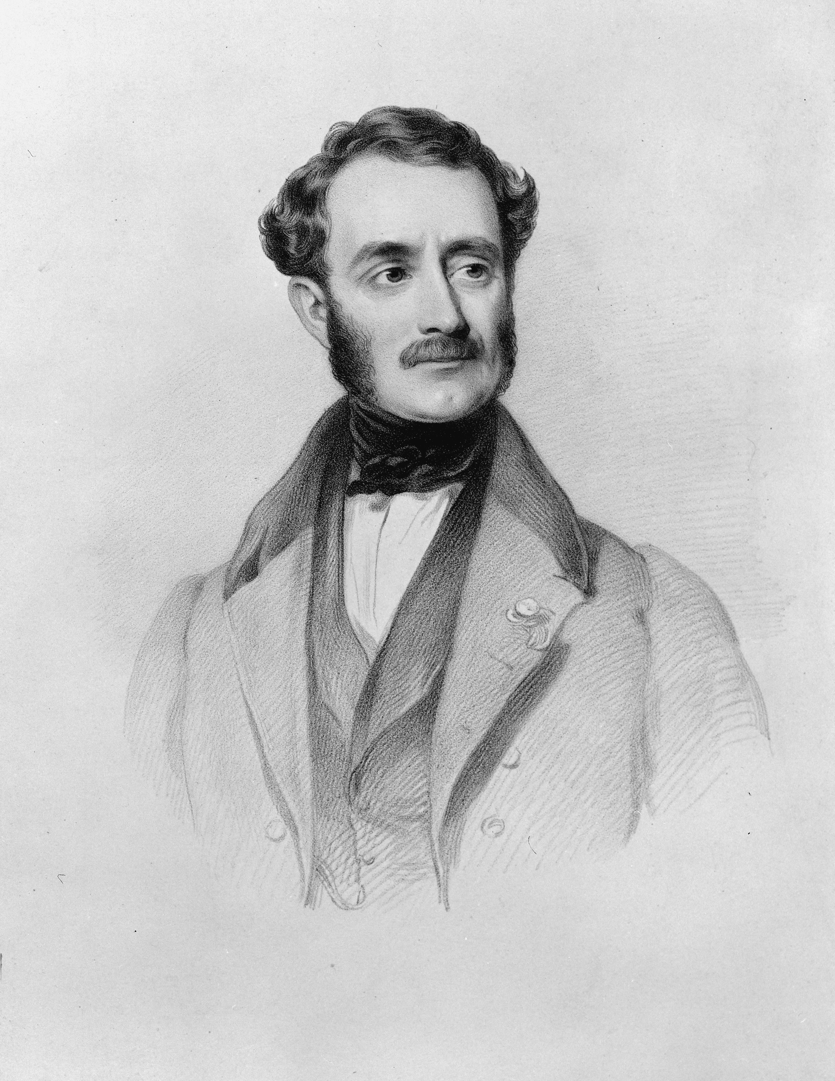 Head and shoulders portrait of Captain Joseph Thomas, Canterbury pioneer.